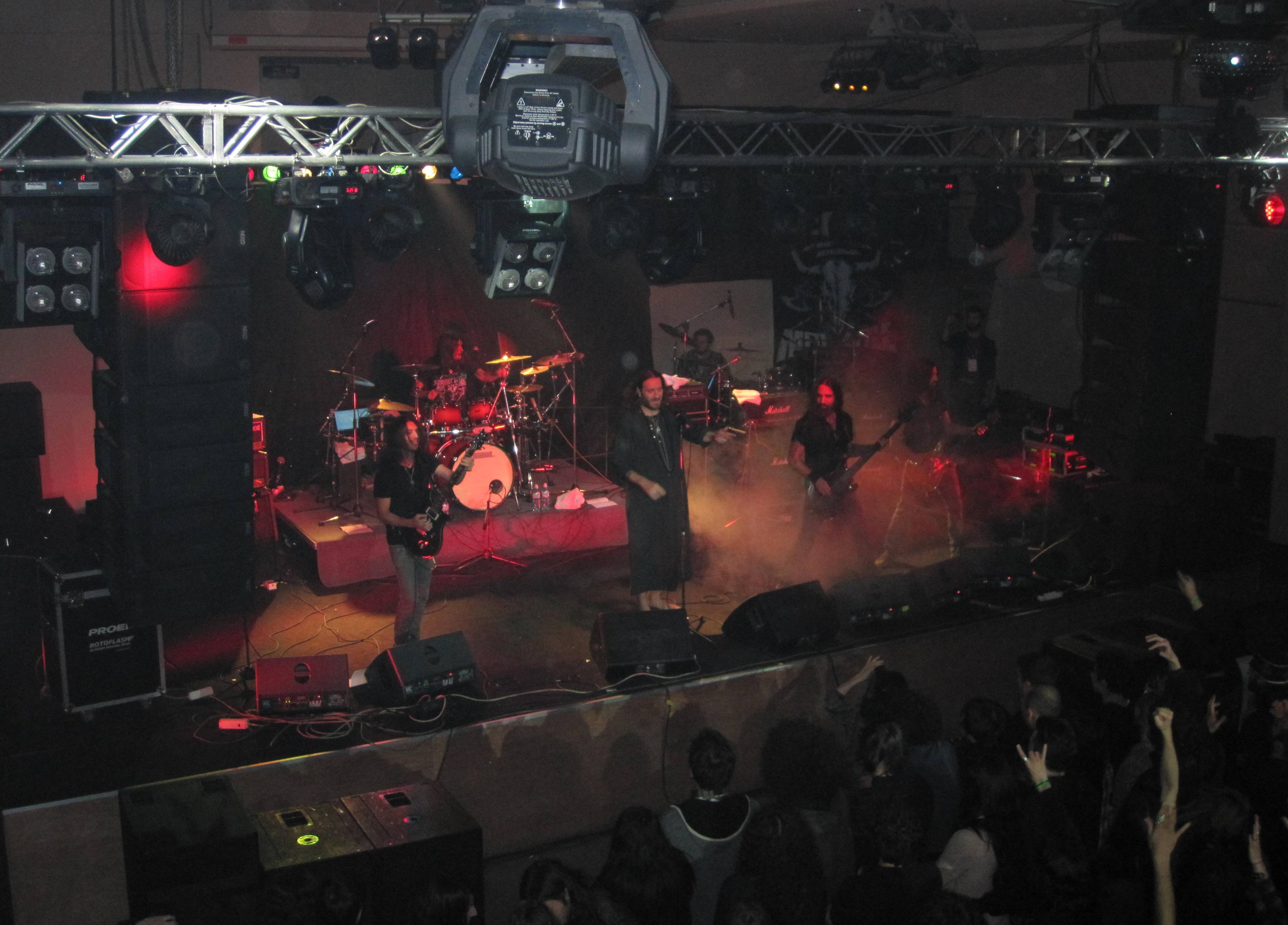 Tbilisi BLITZKRIEG Fest 2014, featuring bands from the South Caucasus and the Oriental Metal band Orphaned Land from Israel.